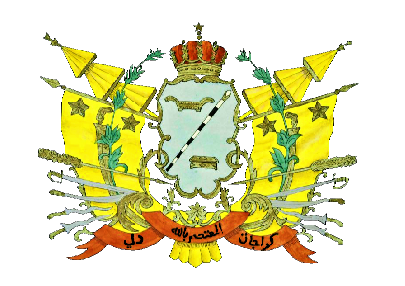 2004-present day